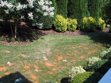 Cicada killer infestation in a North Carolina (USA) yard; the reddish brown patches are cicada killer burrows.